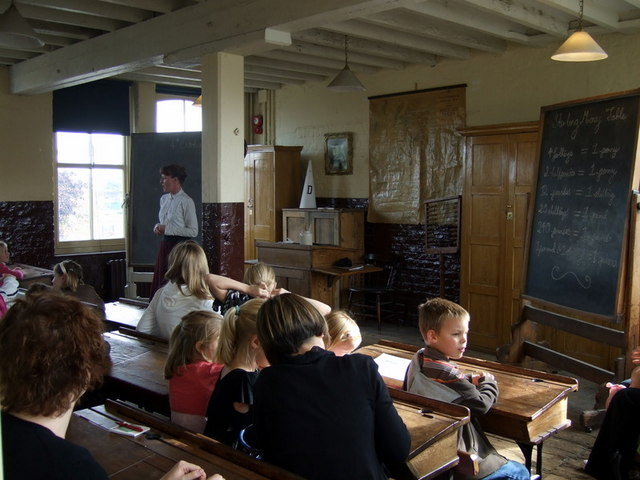 Miss Perkins takes a class. Old-fashioned schoolroom at The Ragged School Museum with desks, inkwells, blackboard and a dunce's cap for those who don't keep up!